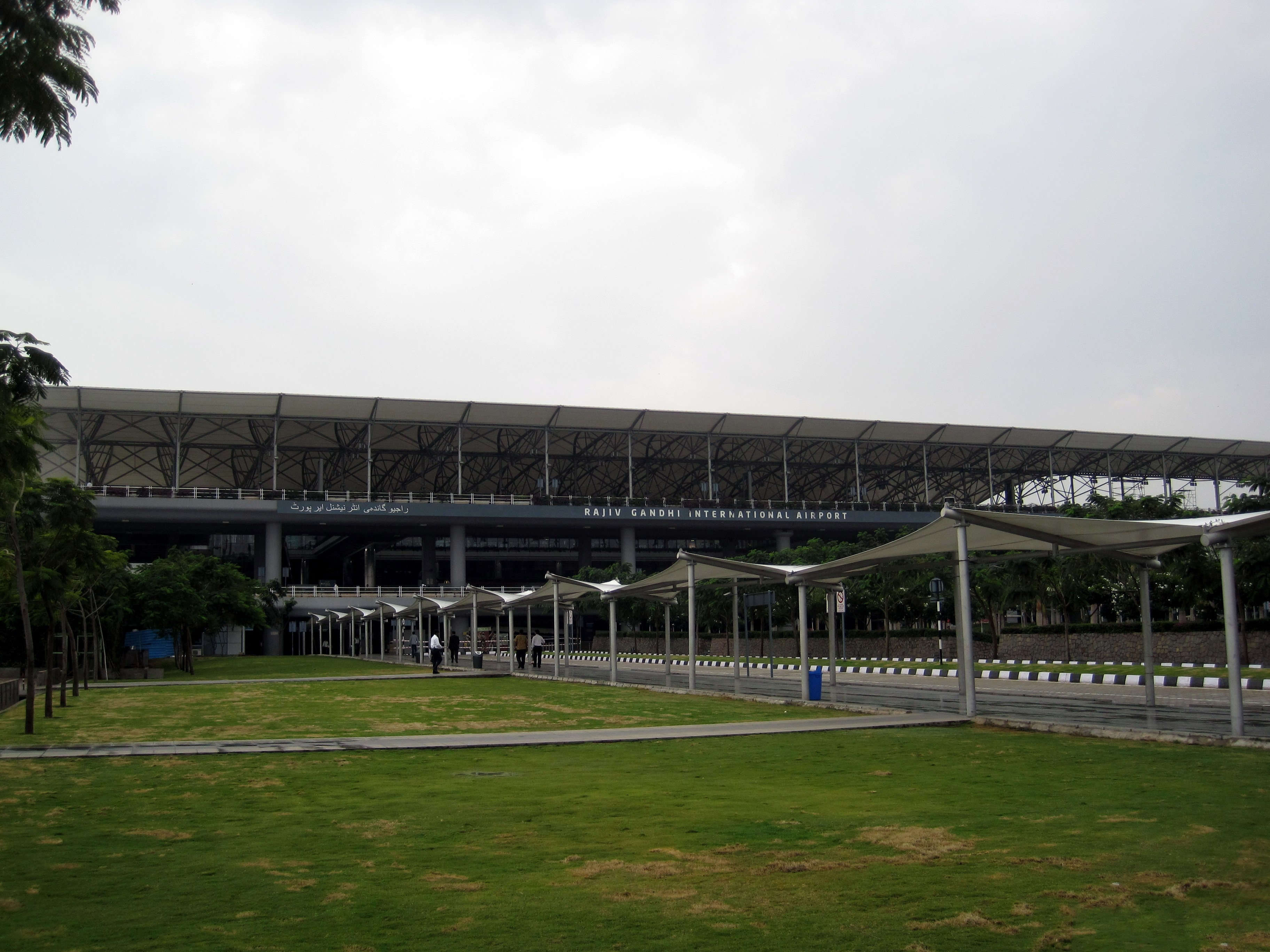 Rajiv Gandhi International Airport, Hyderabad, Andhra Pradesh (India)